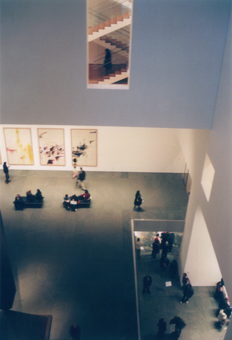 Moma Inside (Museum of Modern Art, New York)